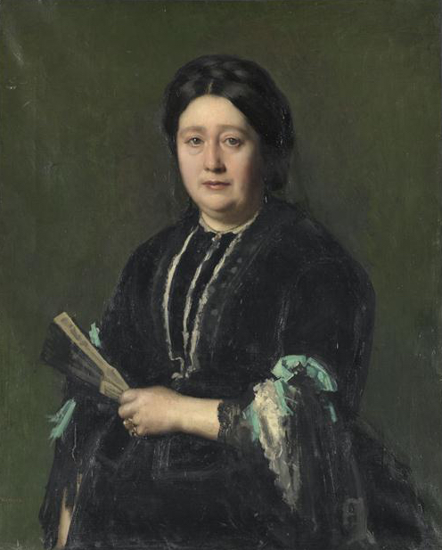 Mme Laure Goüin (1826-1892), épouse Gallay, présidente de l'Association protestante de bienfaisance de Paris de 1871 à 1892